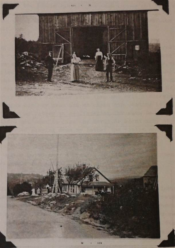 Formerly the Rogers Decoster Homestead